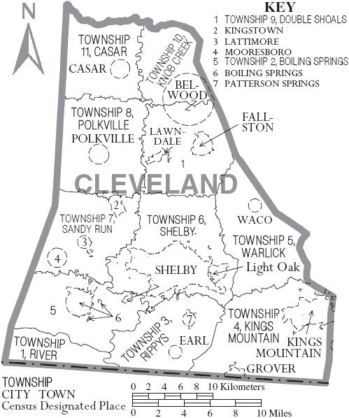 Map of Cleveland County, North Carolina, United States with township and municipal boundaries